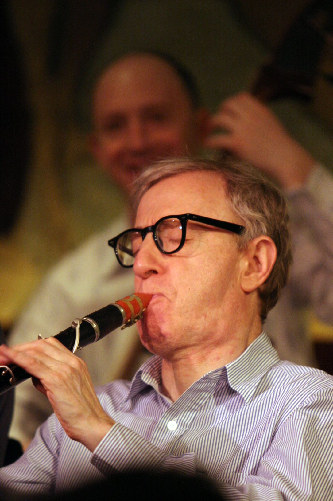 Woody Allen playing his clarinet in concert in New York City.